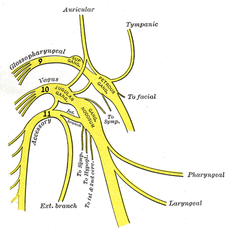 Plan of upper portions of glossopharyngeal, vagus, and accessory nerves.